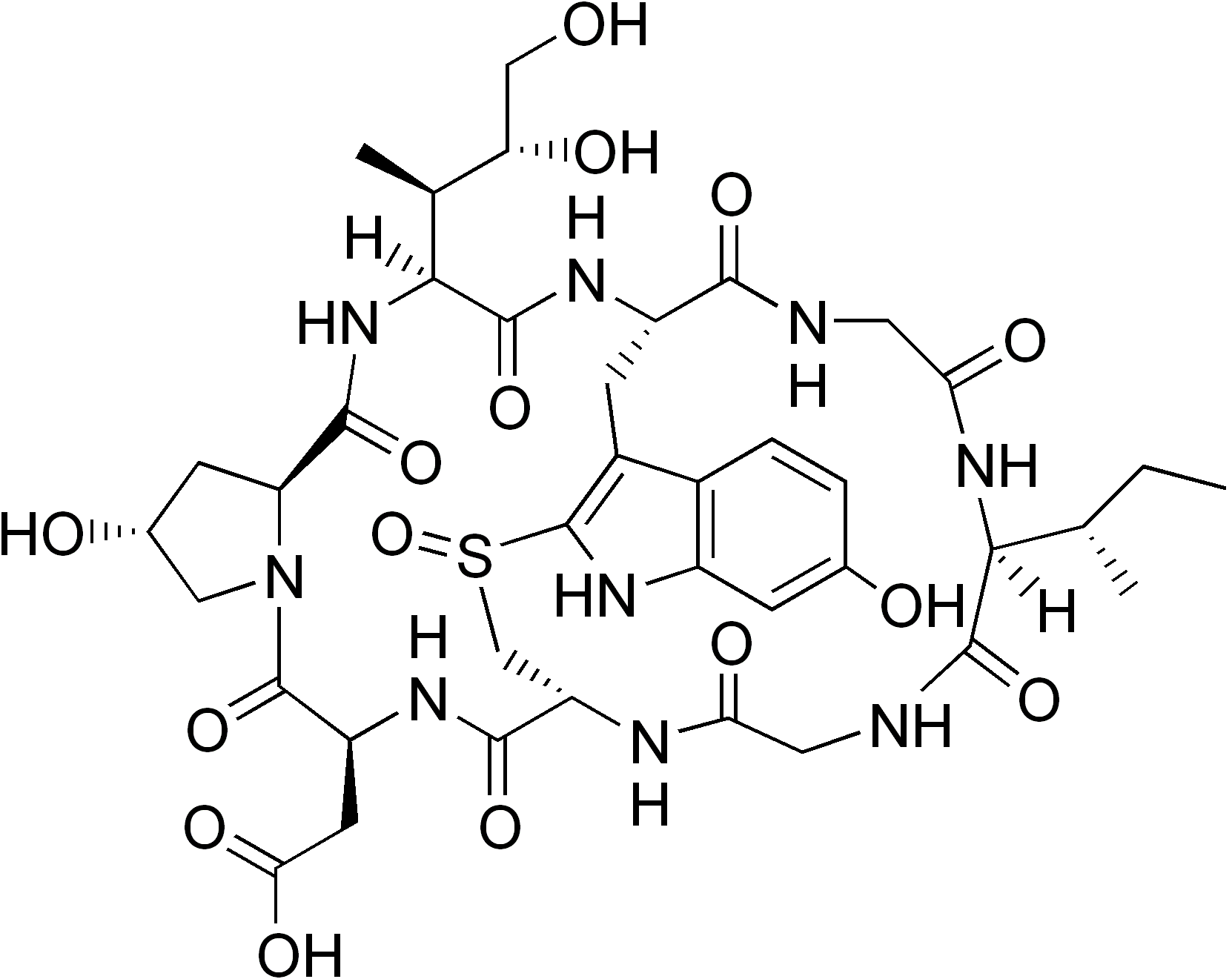 chemical structure of the amatoxin beta-amanitin